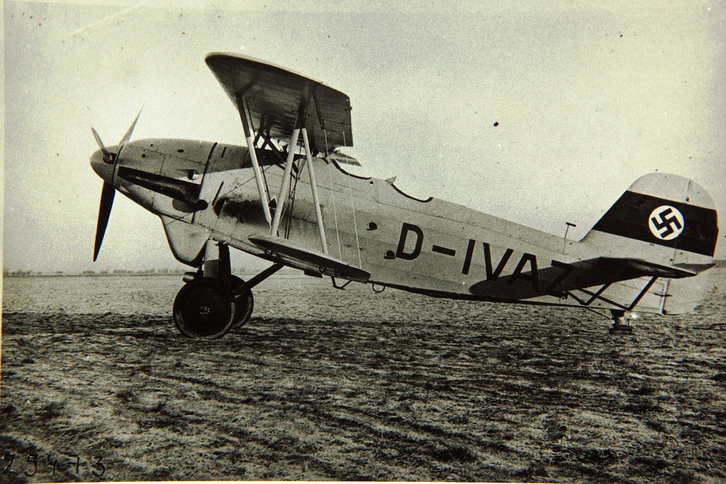 Heinkel He 45 D-IVAZ. Daimler-Benz DB 600 engine